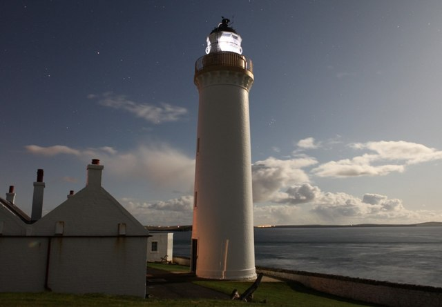 Cantick Head Lighthouse by night Taken using the light of the full moon. Cantick is another masterpiece created by the Stevenson family of engineers and looks over a stretch of water known to local fisherman as Hell's Gate.